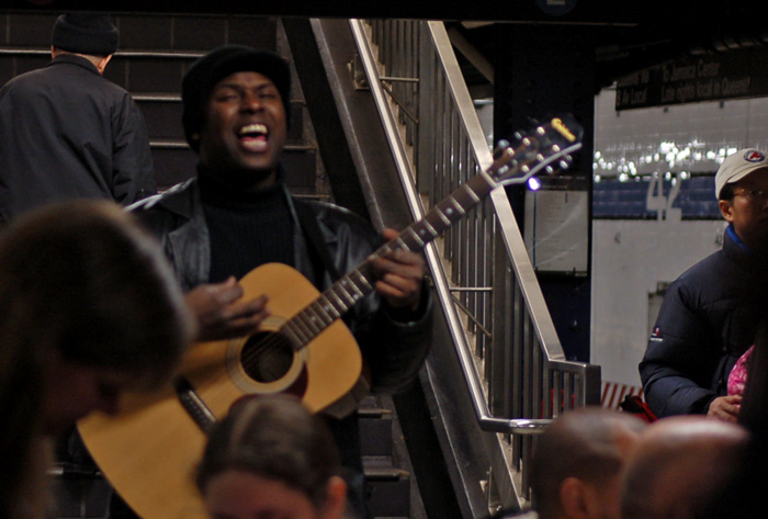 Musician in NYC's 42nd St. subway station